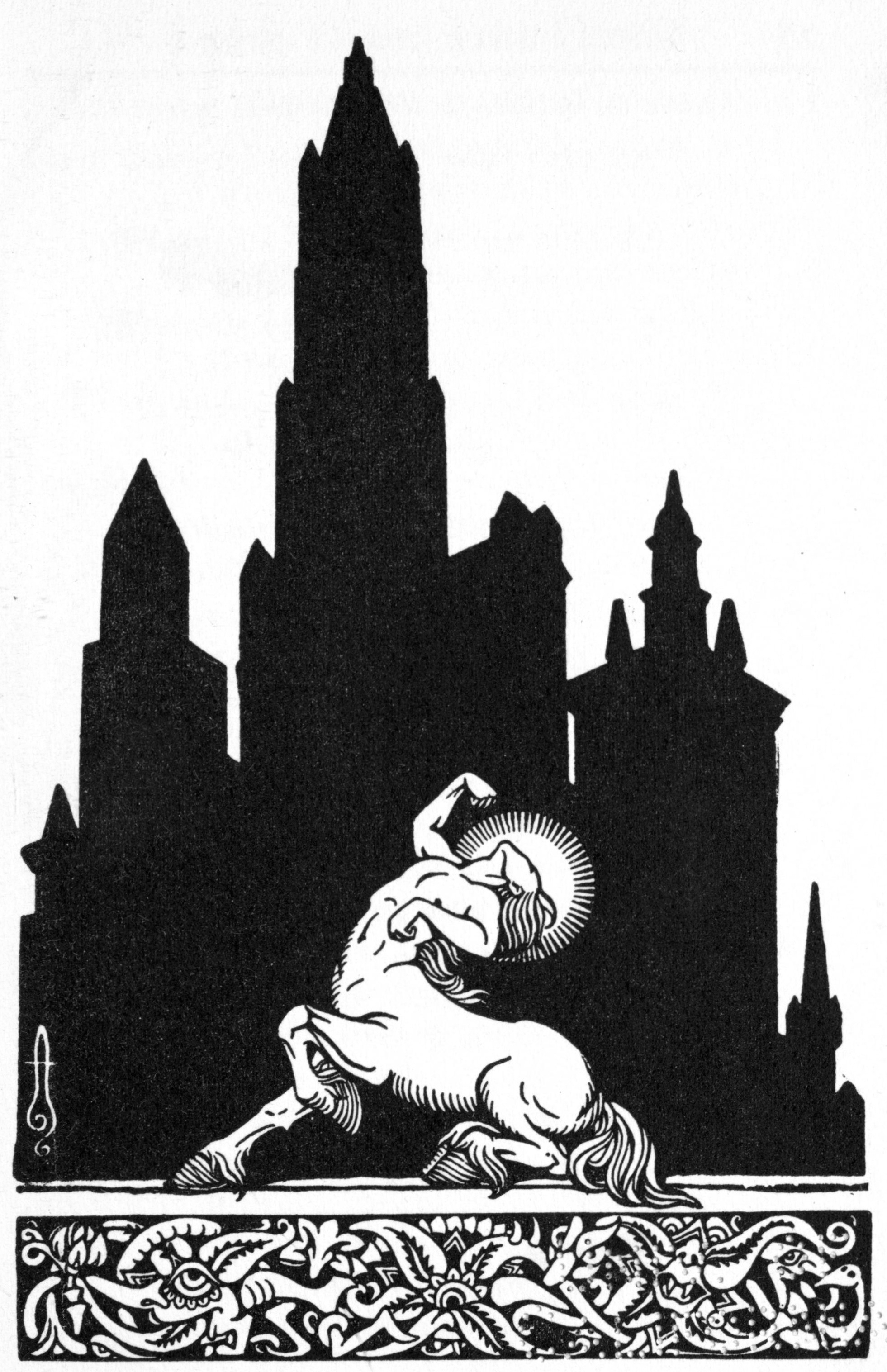 Illustration by Boris Artzybasheff